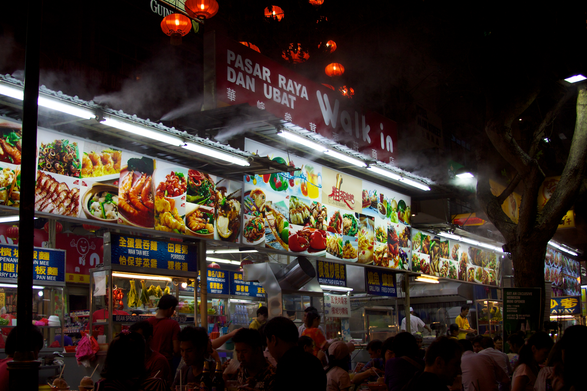 Busy Jalan Alor in Bukit Bintang, a half km of plastic chairs, varied dishes and loud conversation. Populated by locals and tourists alike, it is one of my very favorite places in KL for the atmosphere and good eating.